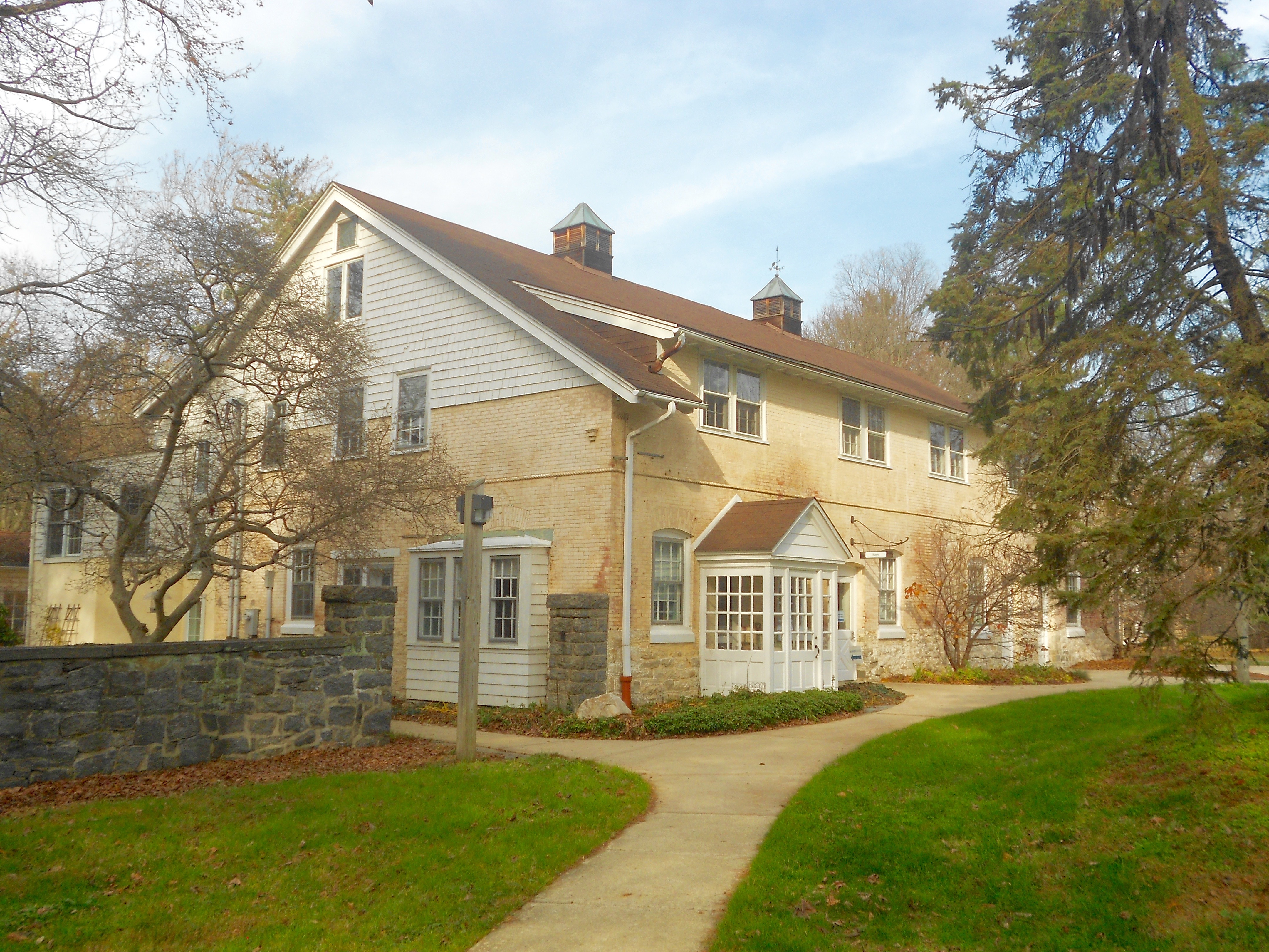 "The Barn" one of the main buildings t the Pendle Hill Conference Center in Wallingford, Delaware County, Pennsylvania